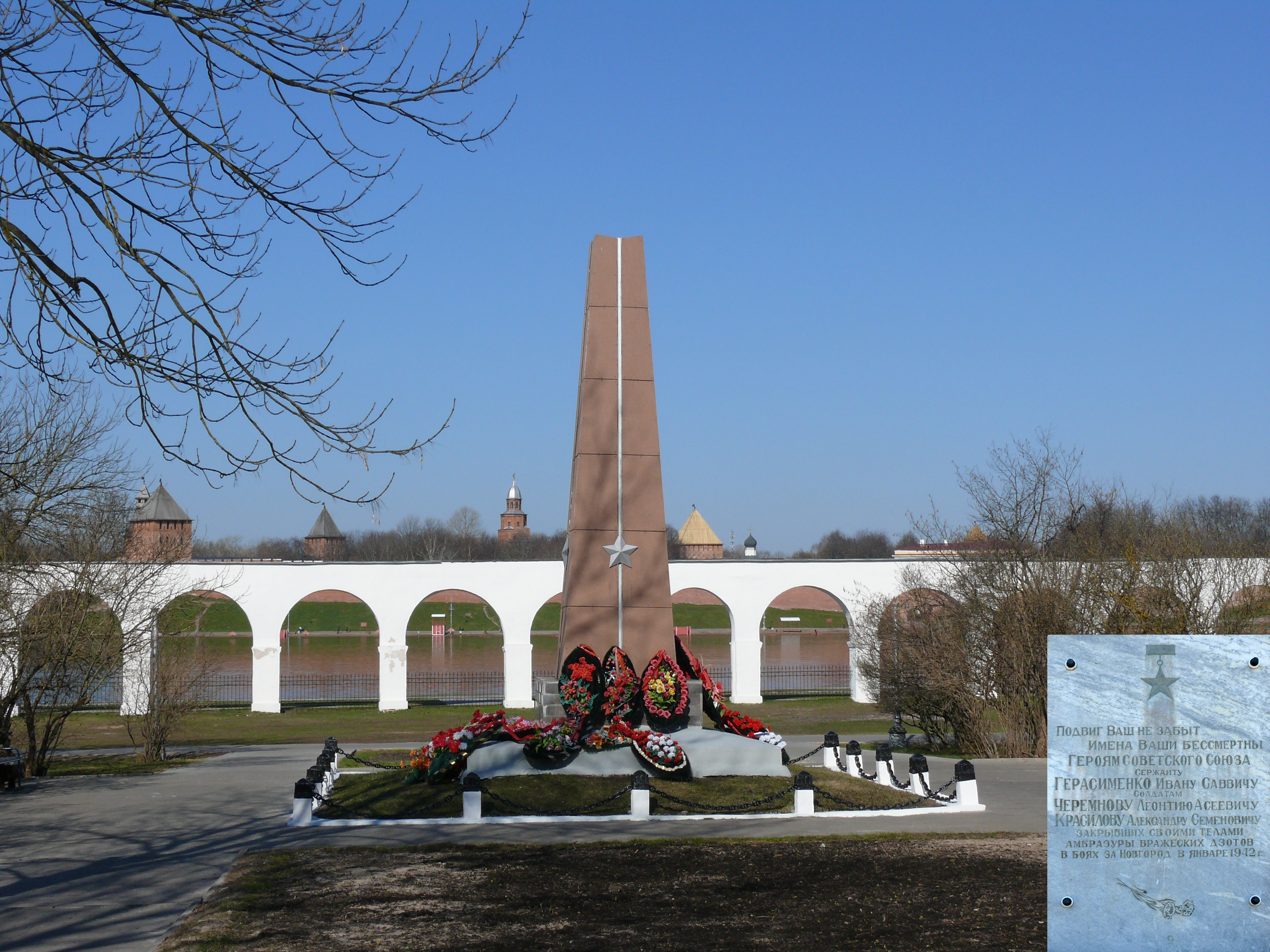 Memorial of war heroes Gerasimenko, Krasiliv, Cheremnov. Veliky Novgorod, Russia